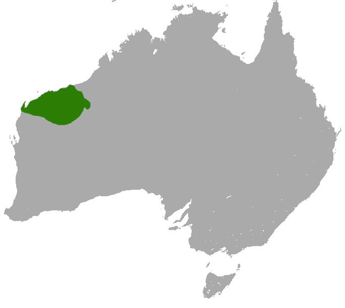 Pilbara Ningaui (Ningaui timealeyi) range